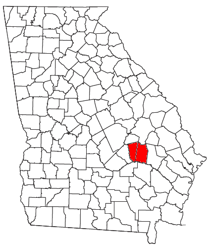 Locator map of the Vidalia Micropolitan Statistical Area in the eastern part of the U.S. state of Georgia.